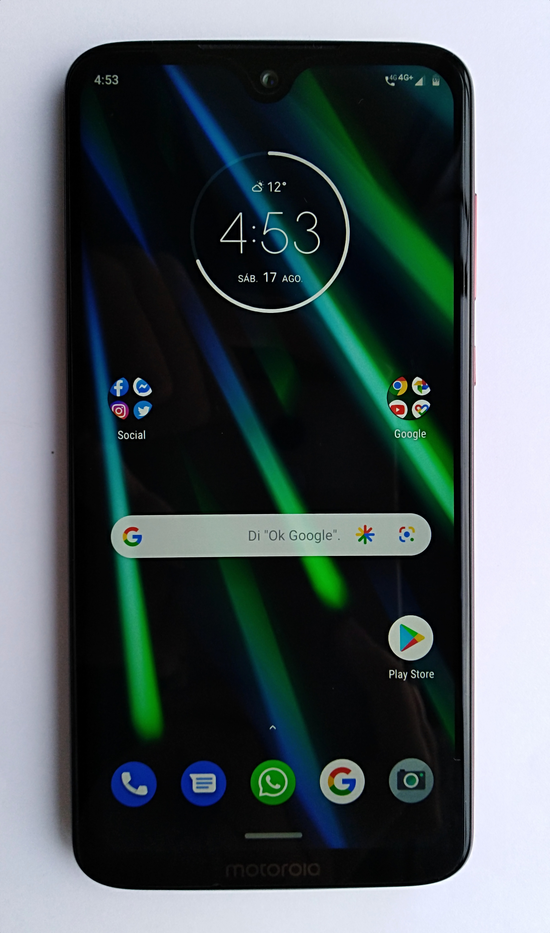 Motorola Moto G7 Plus model XT1965-2 LATAM model, running Android 9 Pie, colour Viva Red